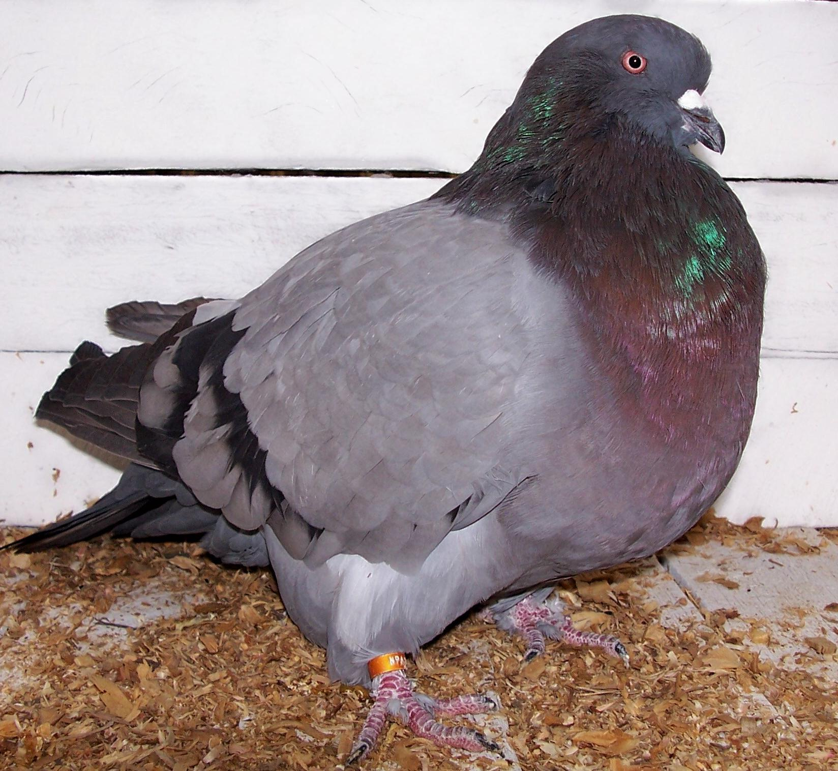 Champion American Giant Runt at Queensland State Show 2008. This pigeon is an old hen owned by Doug Nothdurft.